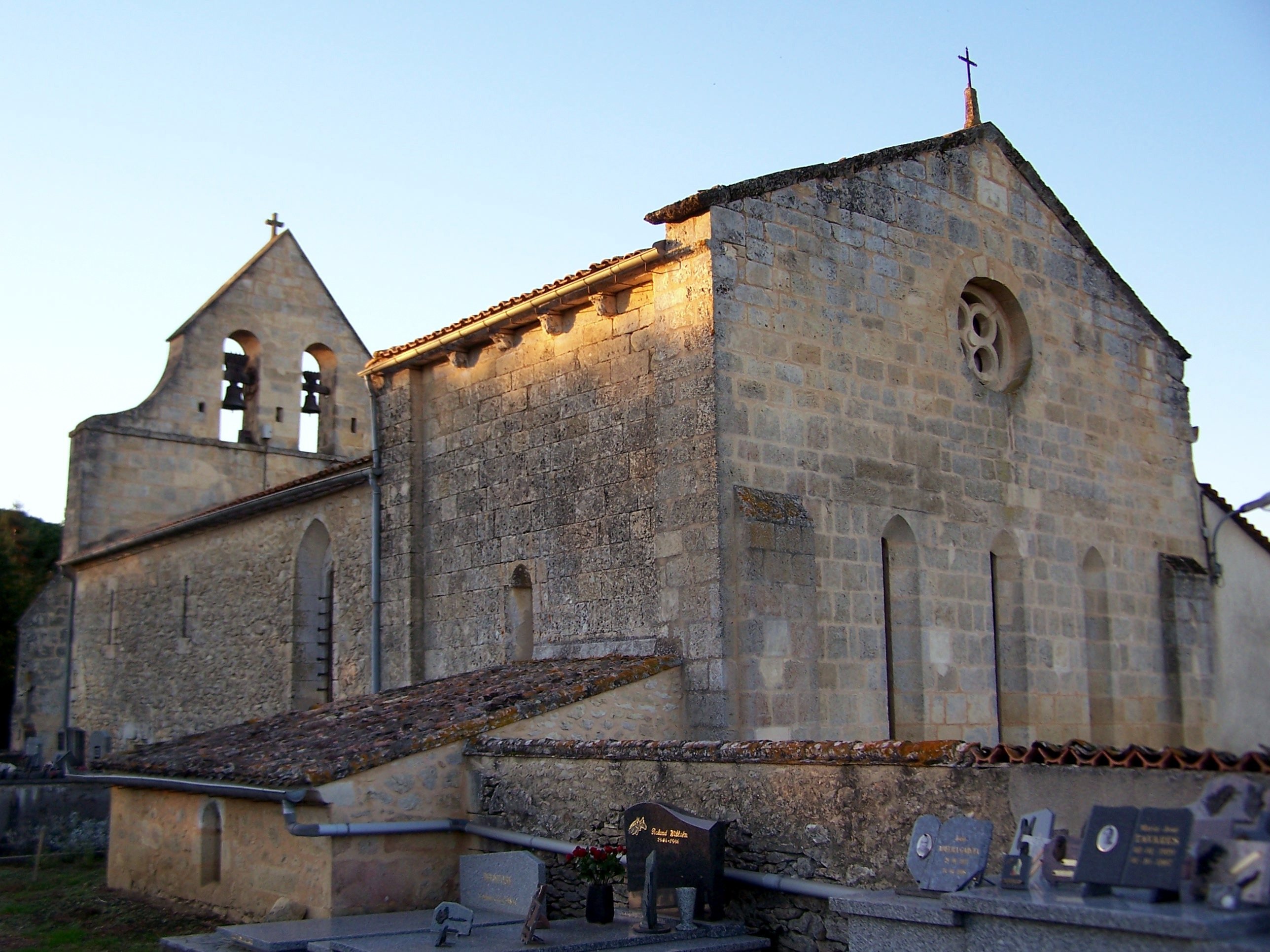 Saint Romain church of Cessac (Gironde, France)